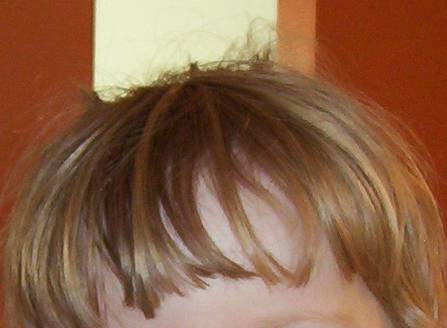 Bangs of hair